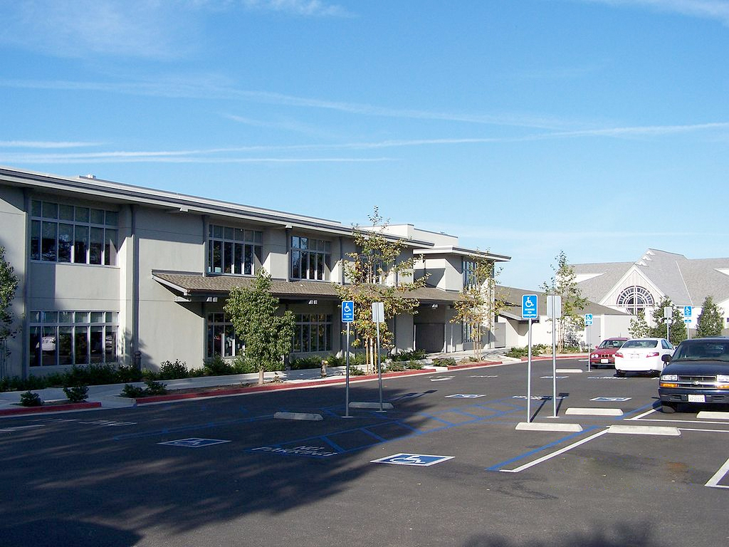 Bel Air Presbyeterian Church Education Building